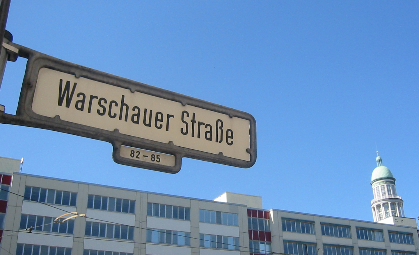 Street sign of Warschauer Straße in Berlin